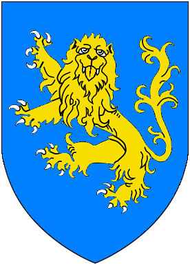 Attributed arms of Robert FitzHamon (d.1107), conqueror of Glamorgan and feudal baron of Gloucester: Azure, a lion rampant guardant or. As seen depicted in the Bodleian Library Manuscript: Top. Gloucester, d. 2, Founders' and benefectors' book of Tewkesbury Abbey.[1] See also blazoned on his tabard in File:RobertFitzHamon BodleianMS TopGloucD2.JPG